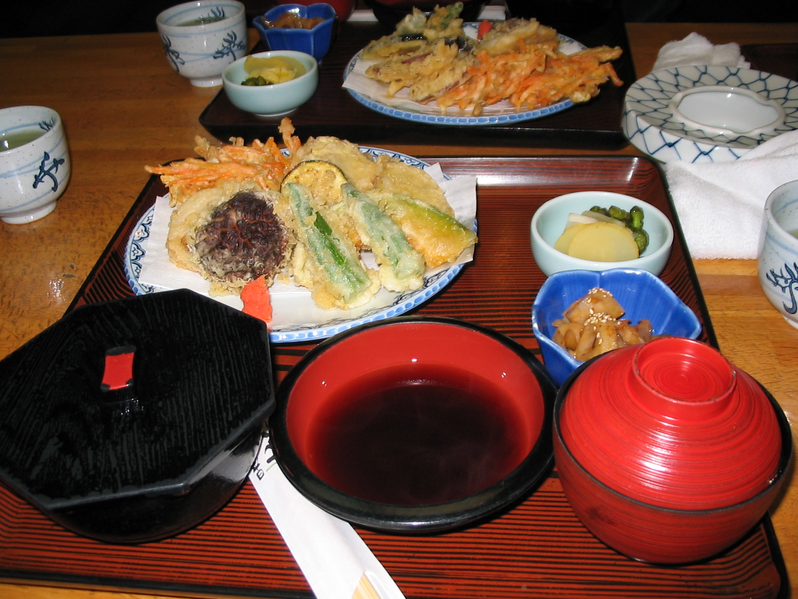 A typical Tempura menu served in a restaurant in Ichikawa, Japan